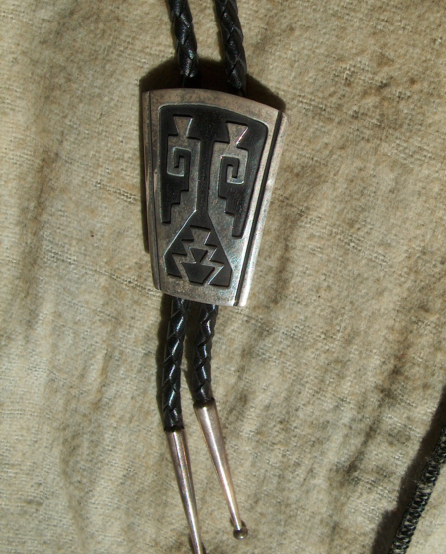 A simple silver bolo tie made by Navajo silversmith Tommy Singer purchased in Taos, New Mexico during the 1980's. While the silver patterns are borrowed from the Hopi pottery designs symbolizing clouds, the silversmithing technique constitutes a gloss, as the oxidized black surfaces remain unadorned, smooth, and devoid of sharp chiseled grooves, the so-called matting technique, and the silver overlay shapes (upper sheet of the two bonded silver sheets) are rounded and sloppily cut, not cut severely and precisely with metal saw applied perpendicularly to the upper sheet of silver that follows a copper template the silversmith cut ahead of time and reuses to create silver copies time and time again. The Hopi silver overlay work, in contradistinction to the Navajo Hopi-like silversmithing, features very sharp cutting of templates with sharp edges remaining throughout, the sharper the more desirable and reflecting skill. Detailed, painstaking matting fills all of the black oxidized surfaces, even those in small narrowly cut out gaps. The more matting, the more effort the silversmith has put in, and the finer is his reputation, and the more his eyesight has been taxed. [Description by user:Mareklug]